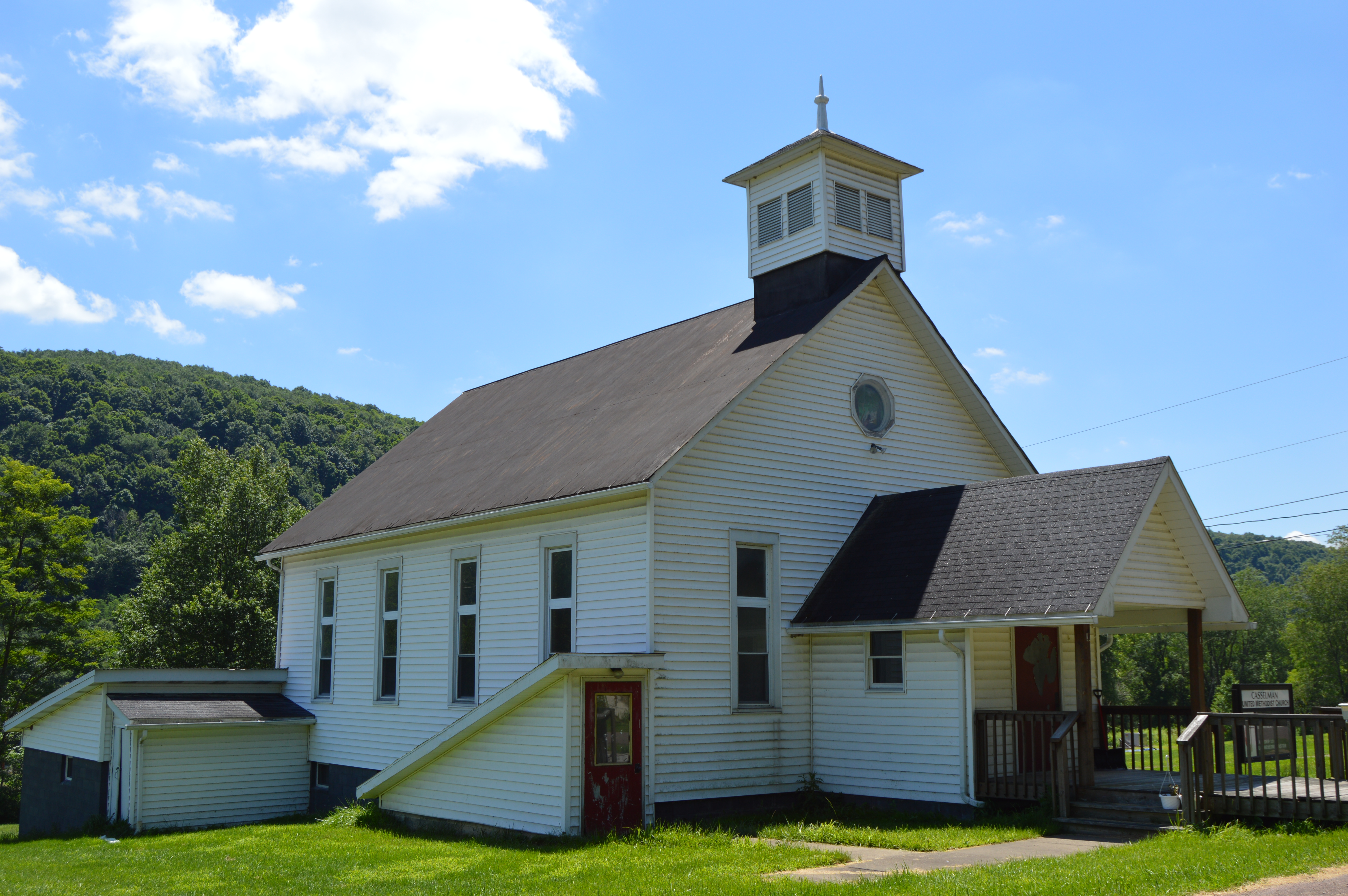 Front of the Casselman United Methodist Church, located on St. John Street in Casselman, Pennsylvania, United States.